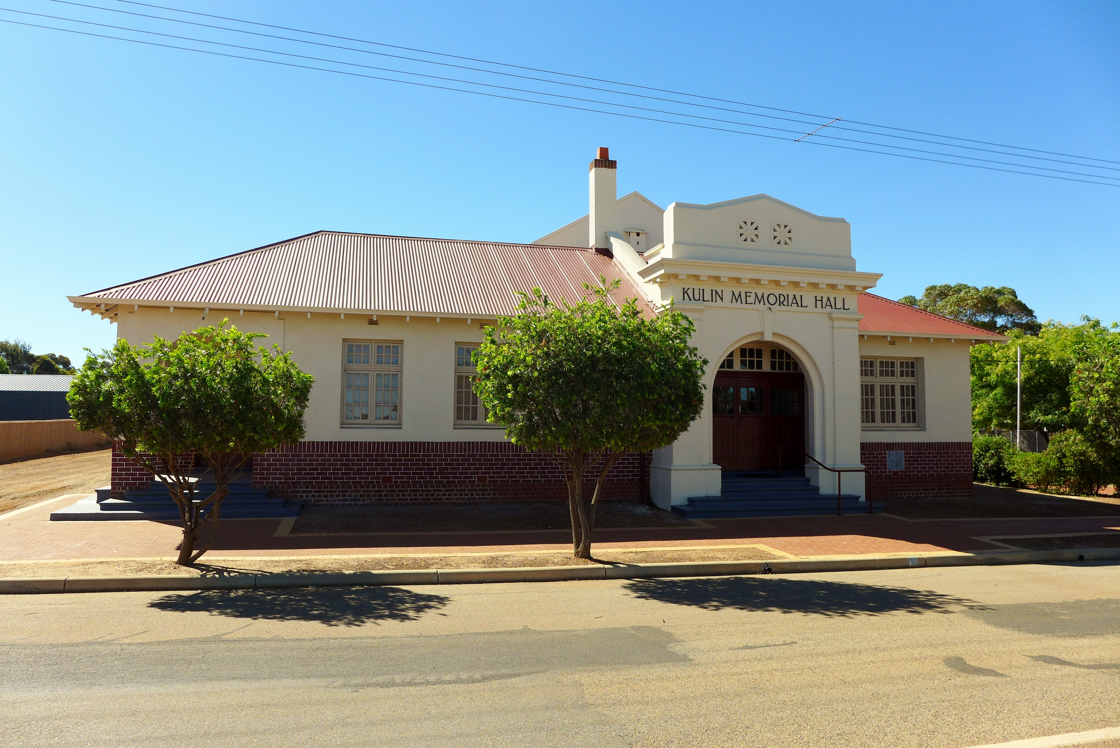 View of the Kulin Memorial Hall, Johnston Street, Kulin, Western Australia.